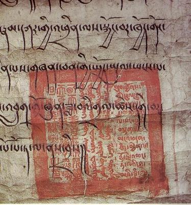 Seal of Lozang Gyatso (1617 - 1682) Fifth Dalai Lama, with from left to right, chinese writing, mongol (or manchu) writing, and tibetan writing.